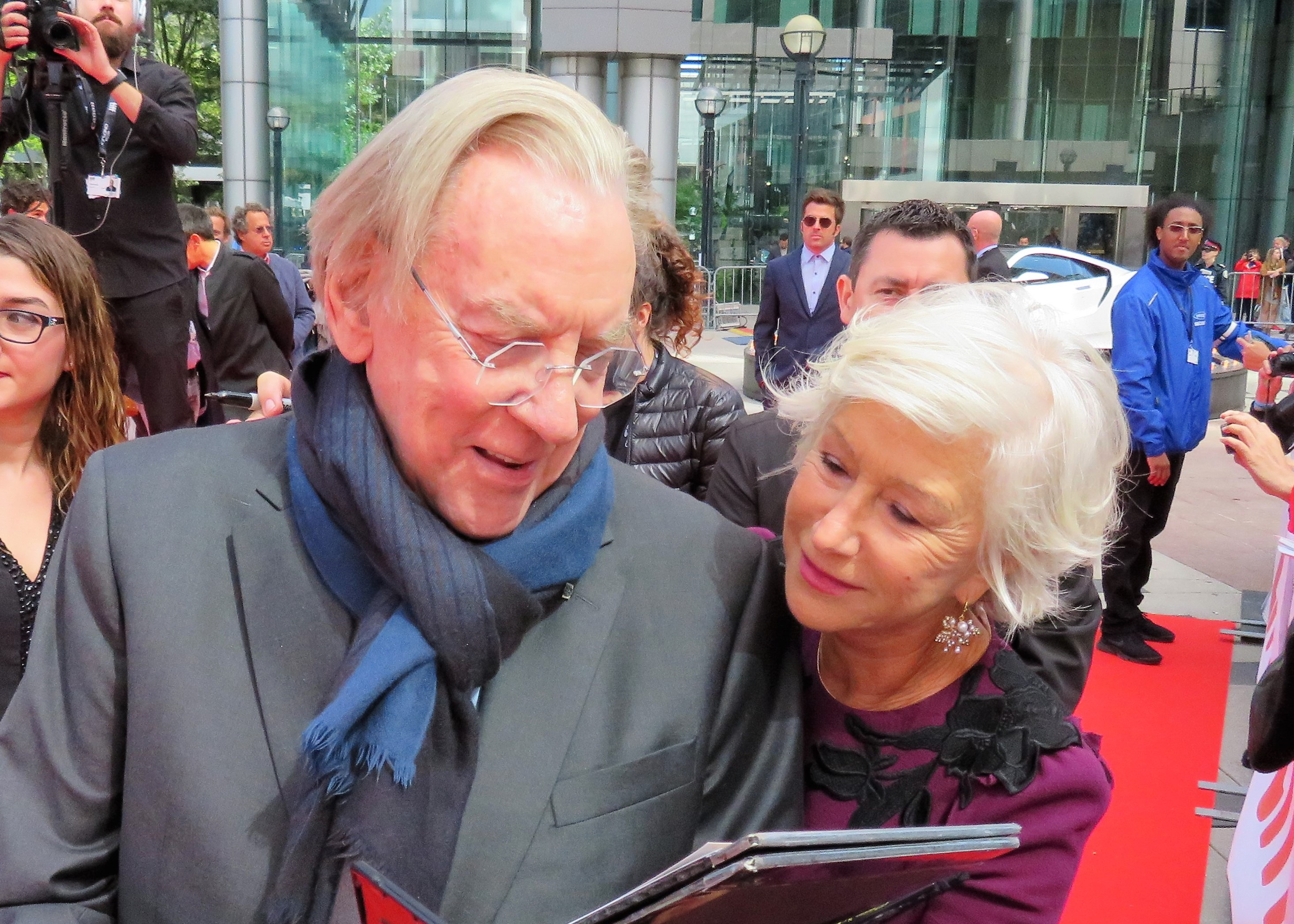 Donald Sutherland and Helen Mirren at the premiere of The Leisure Seeker, 2017 Toronto Film Festival